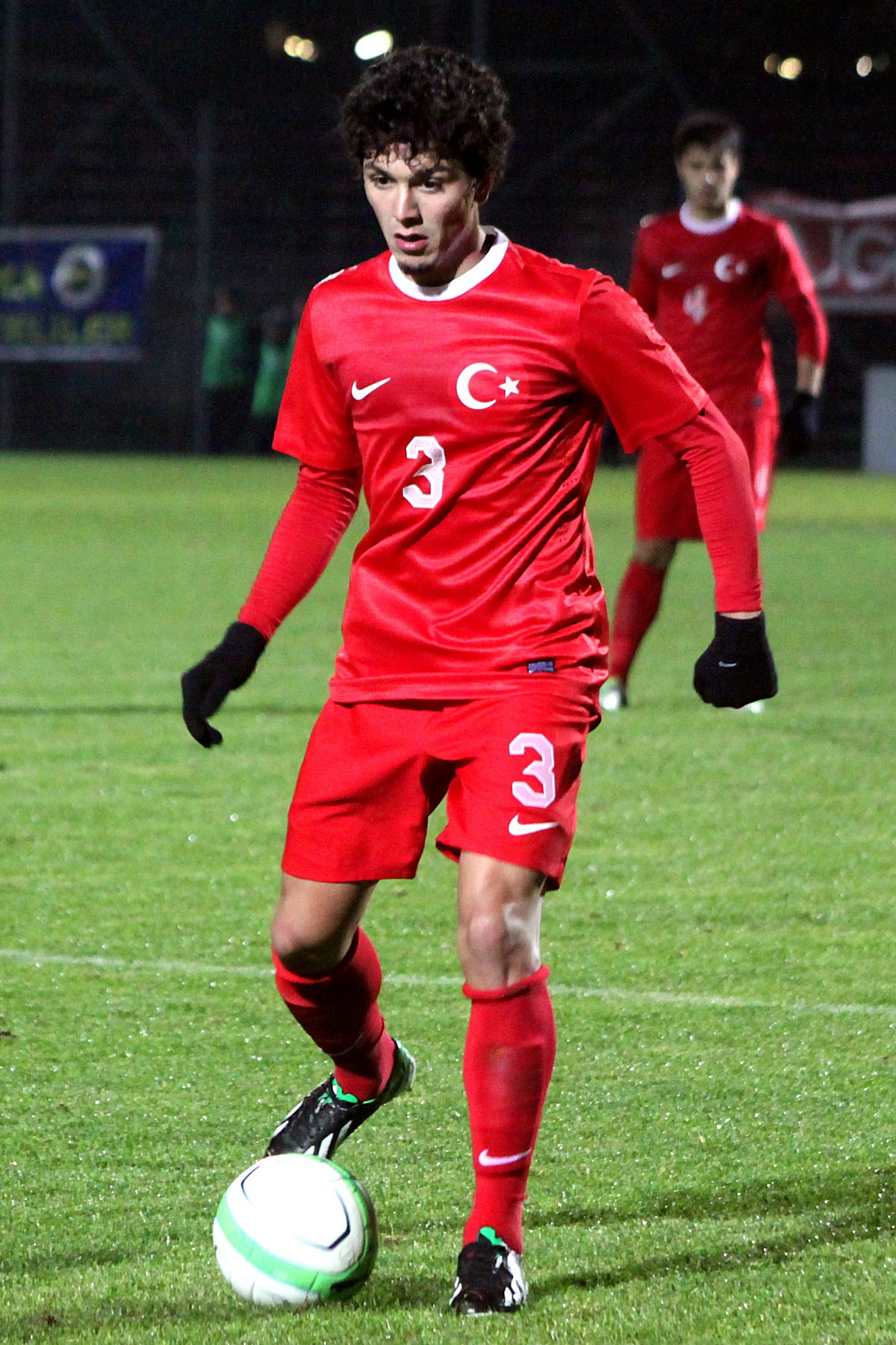 Friendly-match Austria U-21 vs. Turkey U-21 (2:0) on 2013-11-14 in Wiener Neudorf. – The photo shows Oğuzhan Berber (Çaykur Rizespor, Turkey).